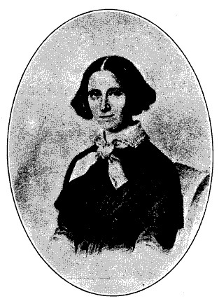 Swedish artist (painter and drawer) Sigrid Snoilsky, née Banér (1813-1856)